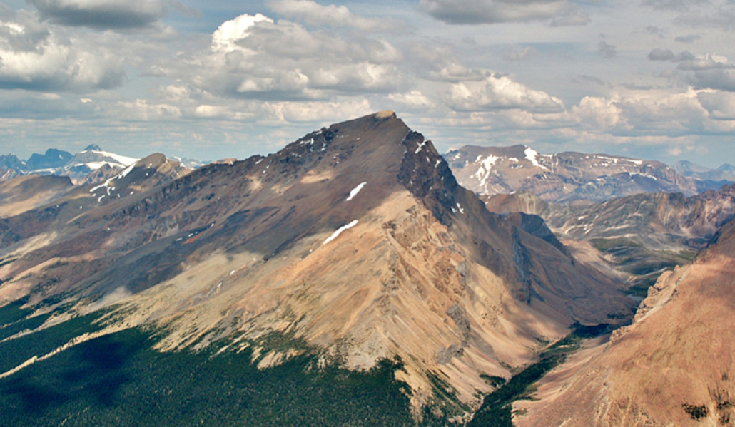 South Face of Sunwapta (Peak 3315m), from Tangle Ridge (3,000m). Jasper National Park, Canada